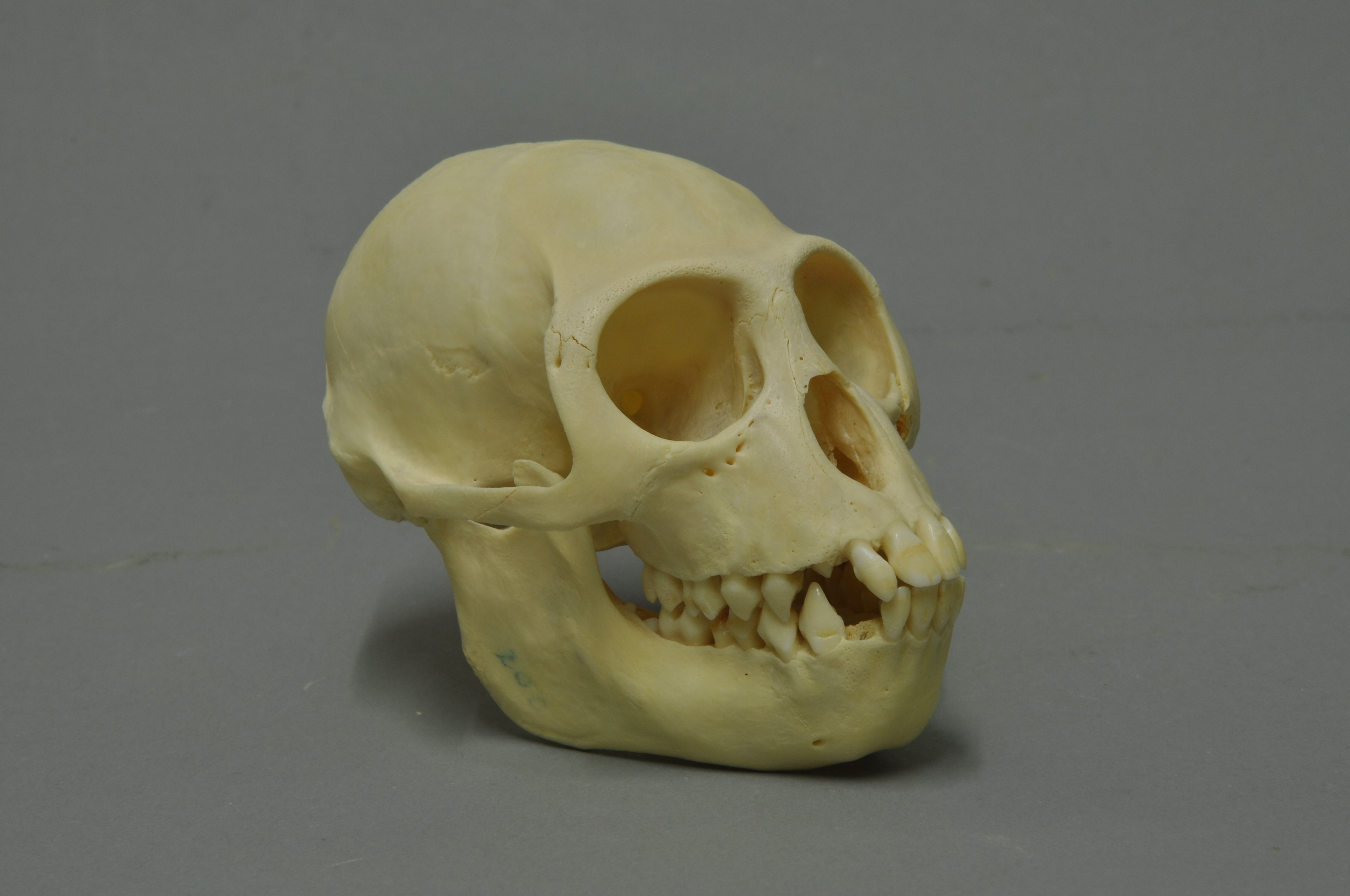 Silvery lutung Trachypithecus cristatus, skull, Coll. Museum Wiesbaden